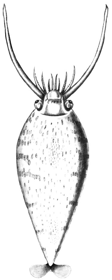 A drawing of Helicocranchia pfefferi (piglet squid).